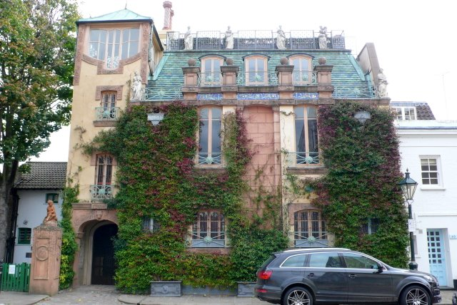 Ornate House, Glebe Place, Chelsea Glebe Place is in the NW corner of the grid square just off the King's Rd. The road leads south to nearby Cheyne Walk and the River Thames